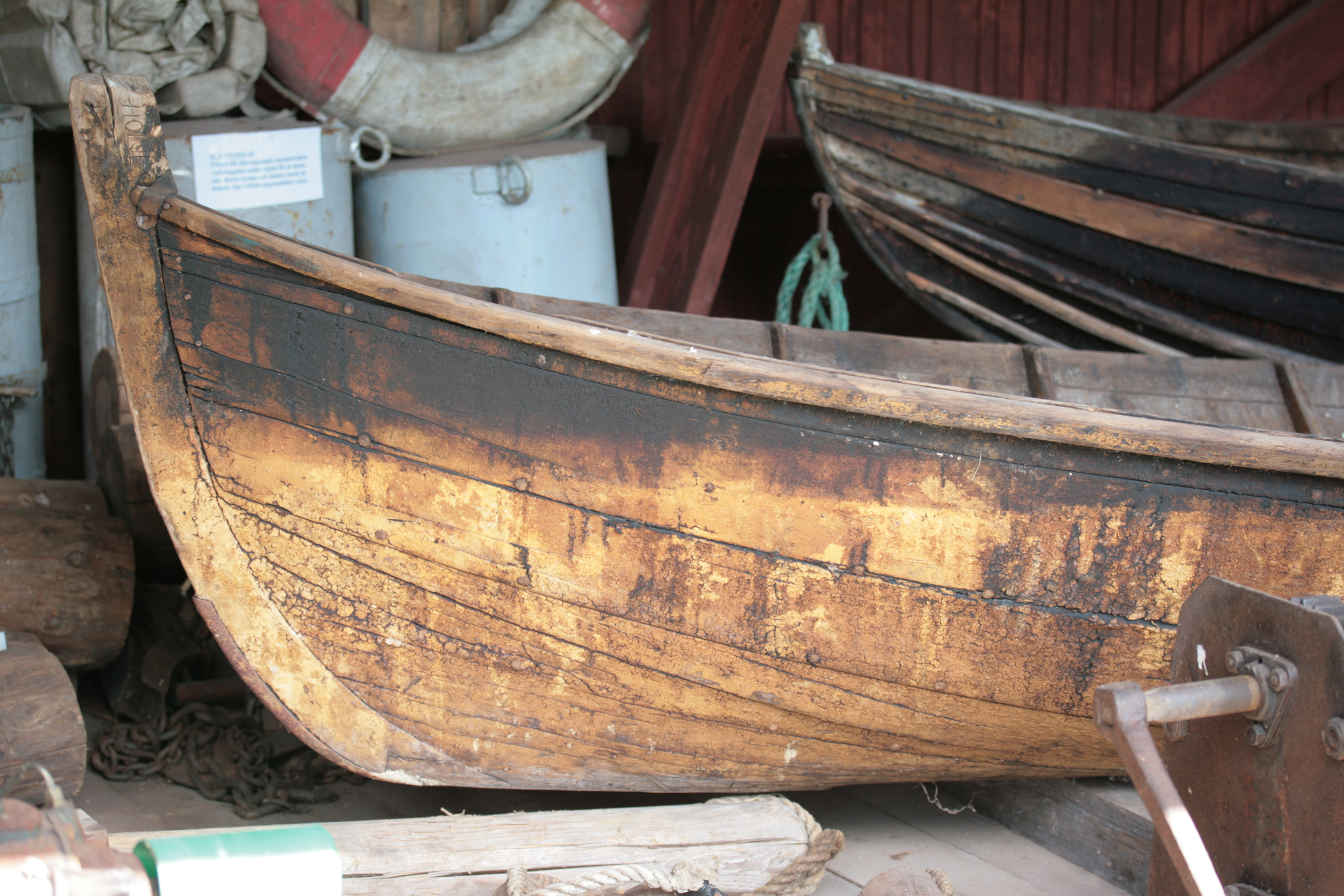 Rowing boat used in the work with timber floating .